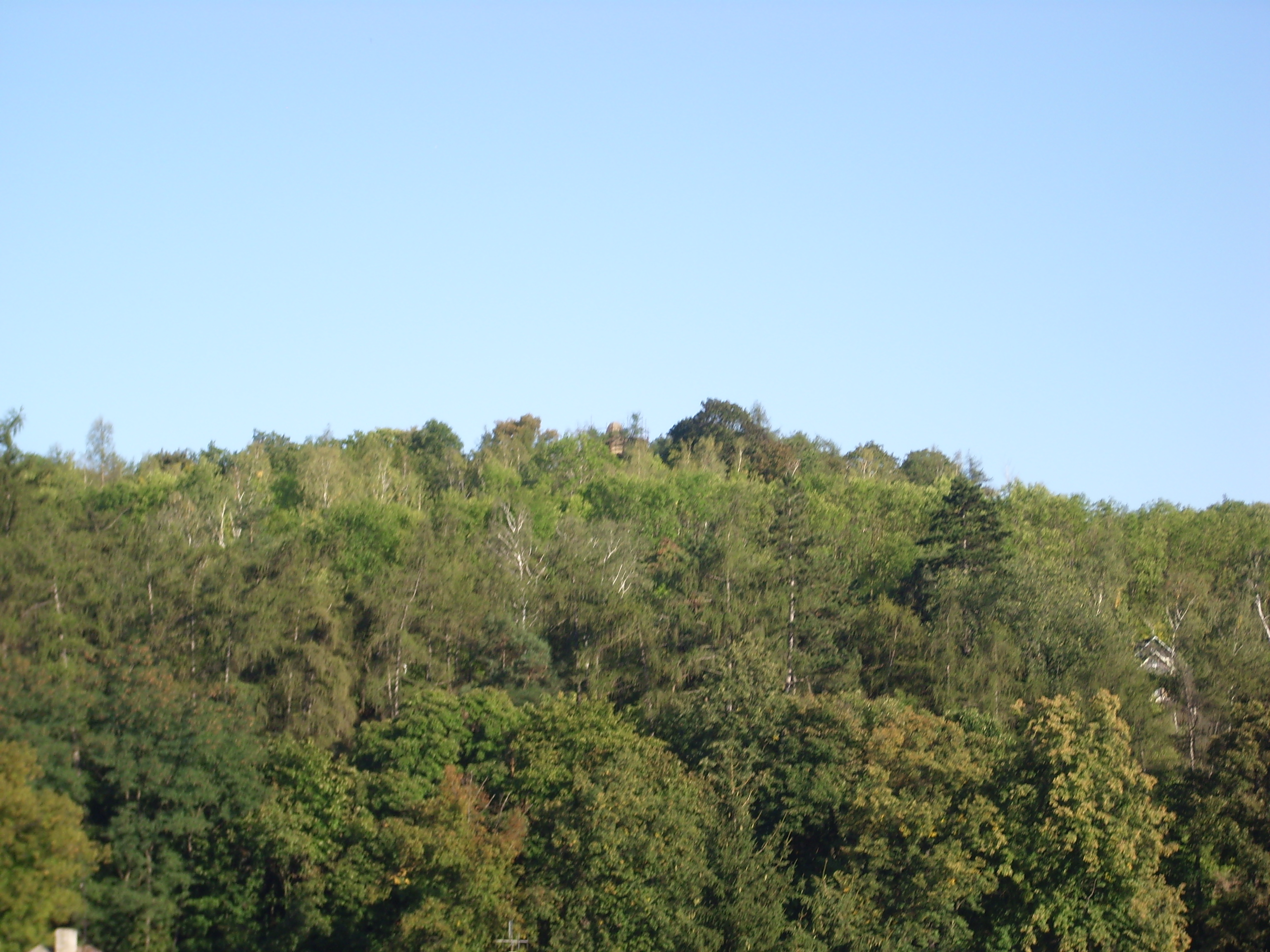 Hill of Okrouhlík with chapel of the Holy Sepulchre (built 1665) above Kvíček, a suburb of Slaný, Czech Republic